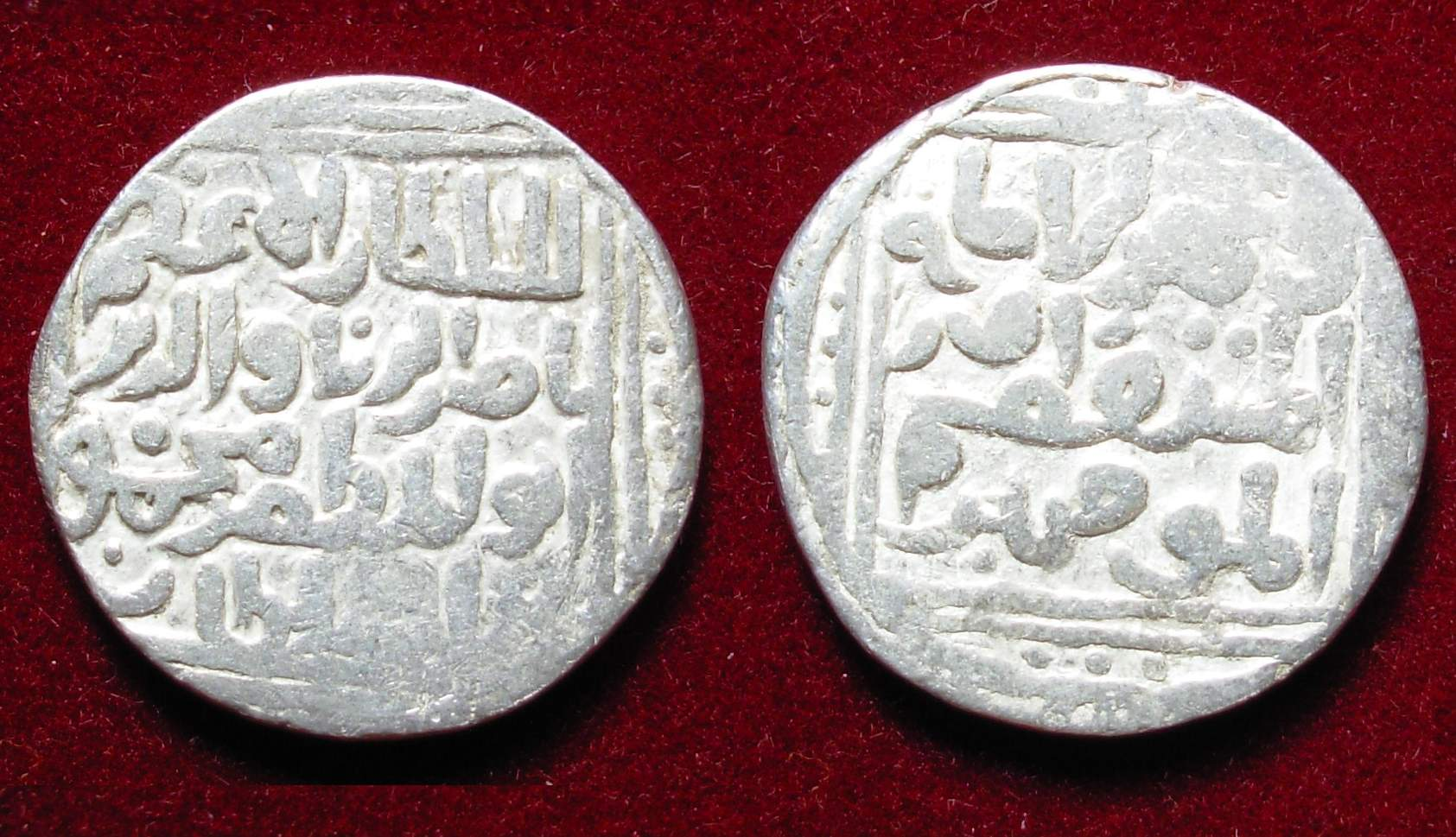 A coin, minted between 1246 and 1266 under the rule of Nasir ud din Mahmud, Sultan of Delhi.